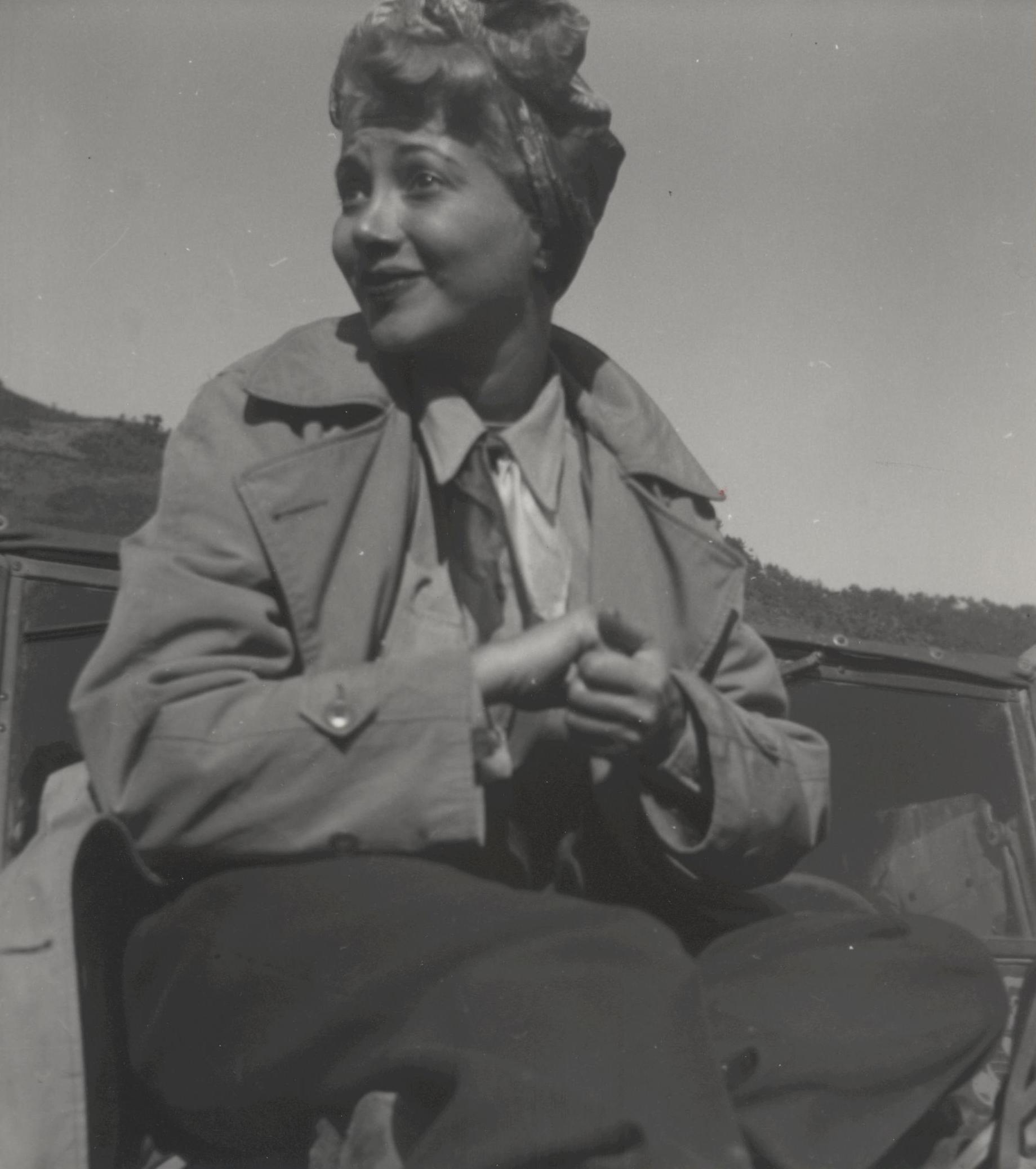 Singer and actress Monica Lewis visits the troops in Korea in 1951. From the David Strebe Collection (COLL/5414) at the Marine Corps Archives and Special Collections OFFICIAL USMC PHOTOGRAPH